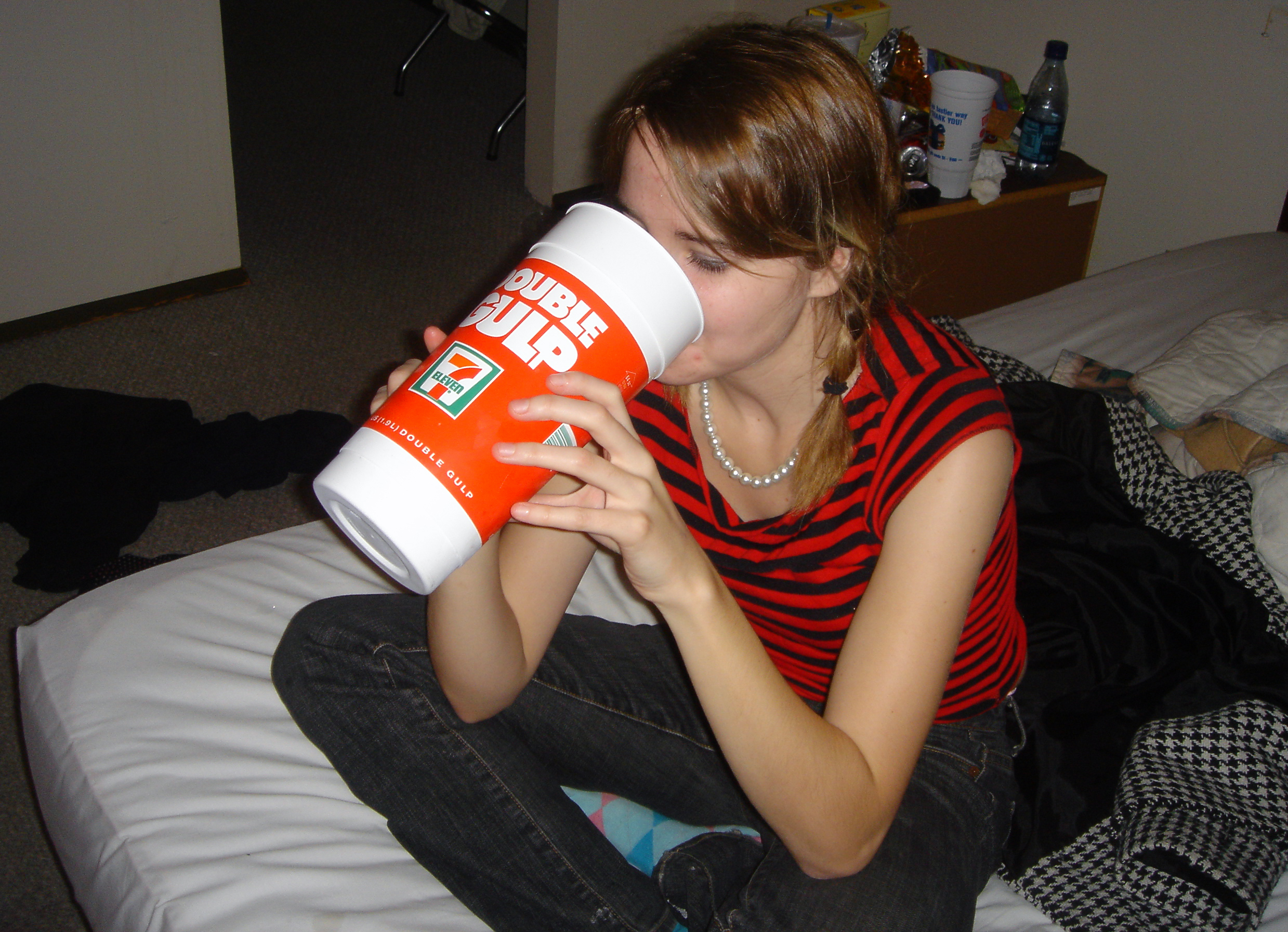 Young woman drinking from very big beverage cup.